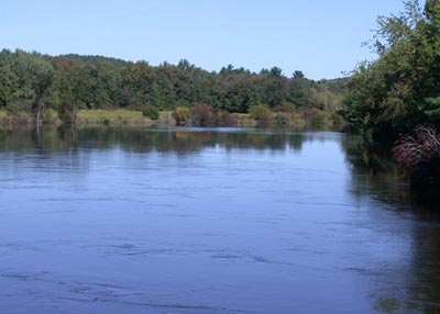 Nashua River just outside Groton. © 2004 Matthew Trump (taken Sept. 20, 2004)